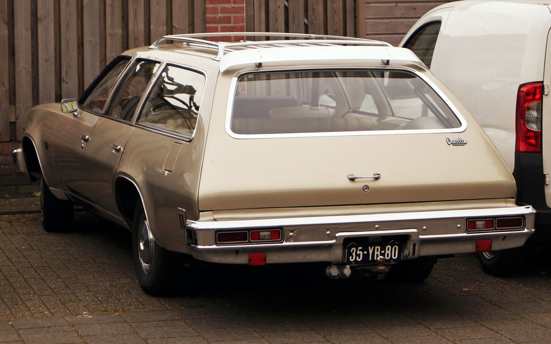 1974 Chevrolet Chevelle Malibu Station Wagon (Dutch registration 35-YB-80) on Jan Vermeerstraat, Ede